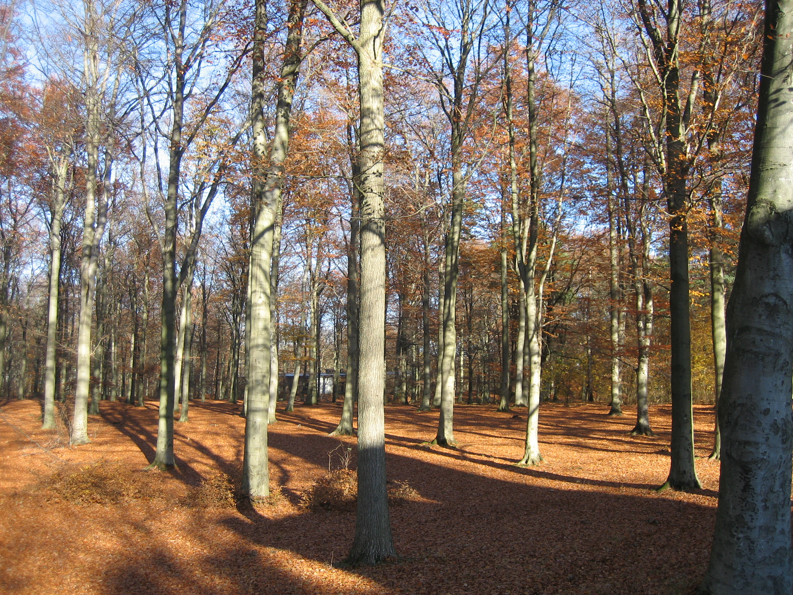 European Beech (Fagus sylvatica) forest in November — in Halmstad, Sweden.